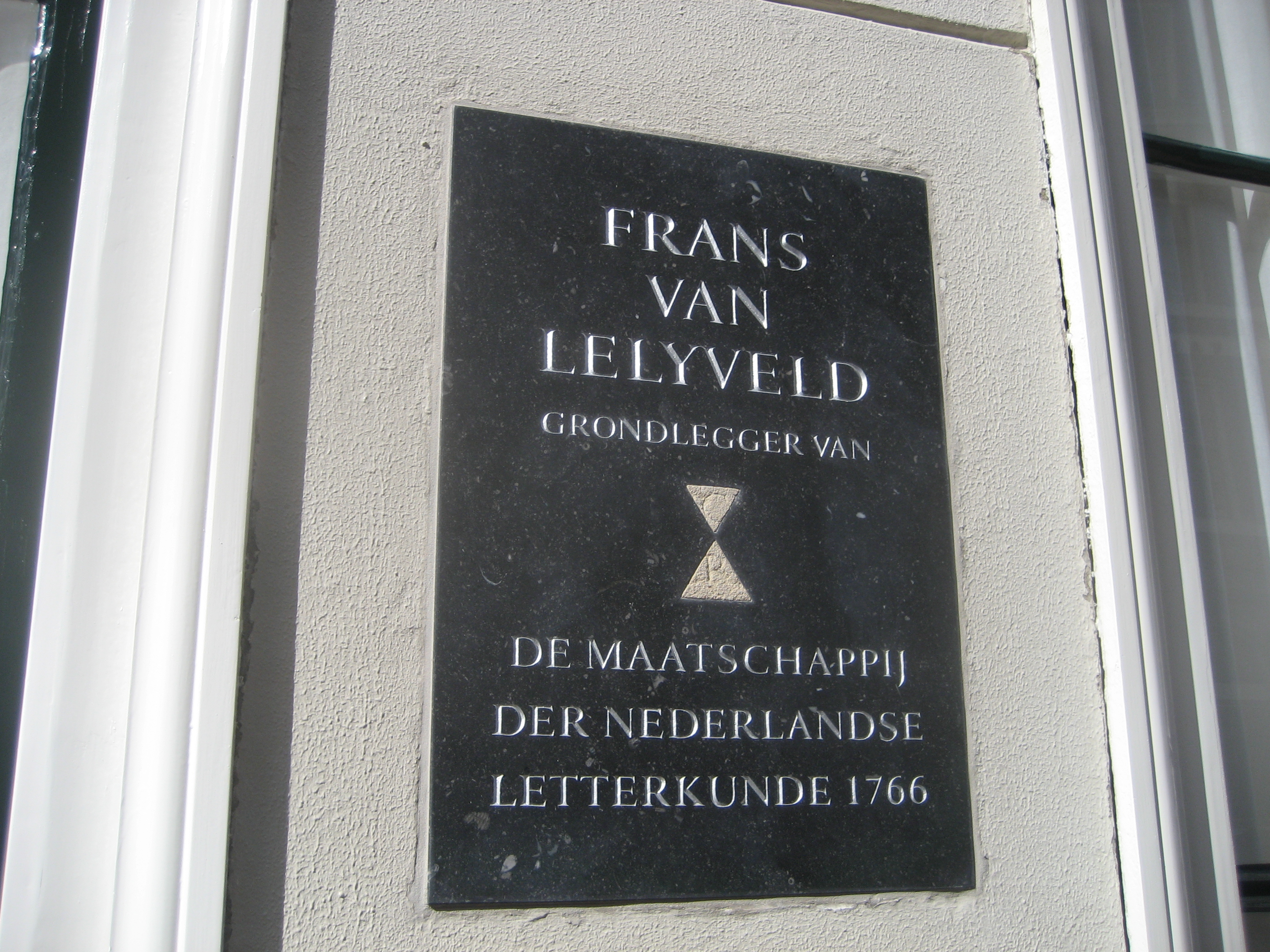 New placque (2016) at Hogewoerd 126-B, Leiden (the Netherlands). Text reads: Frans van Lelyveld, grondlegger van de Maatschappij der Nederlandse Letterkunde 1766